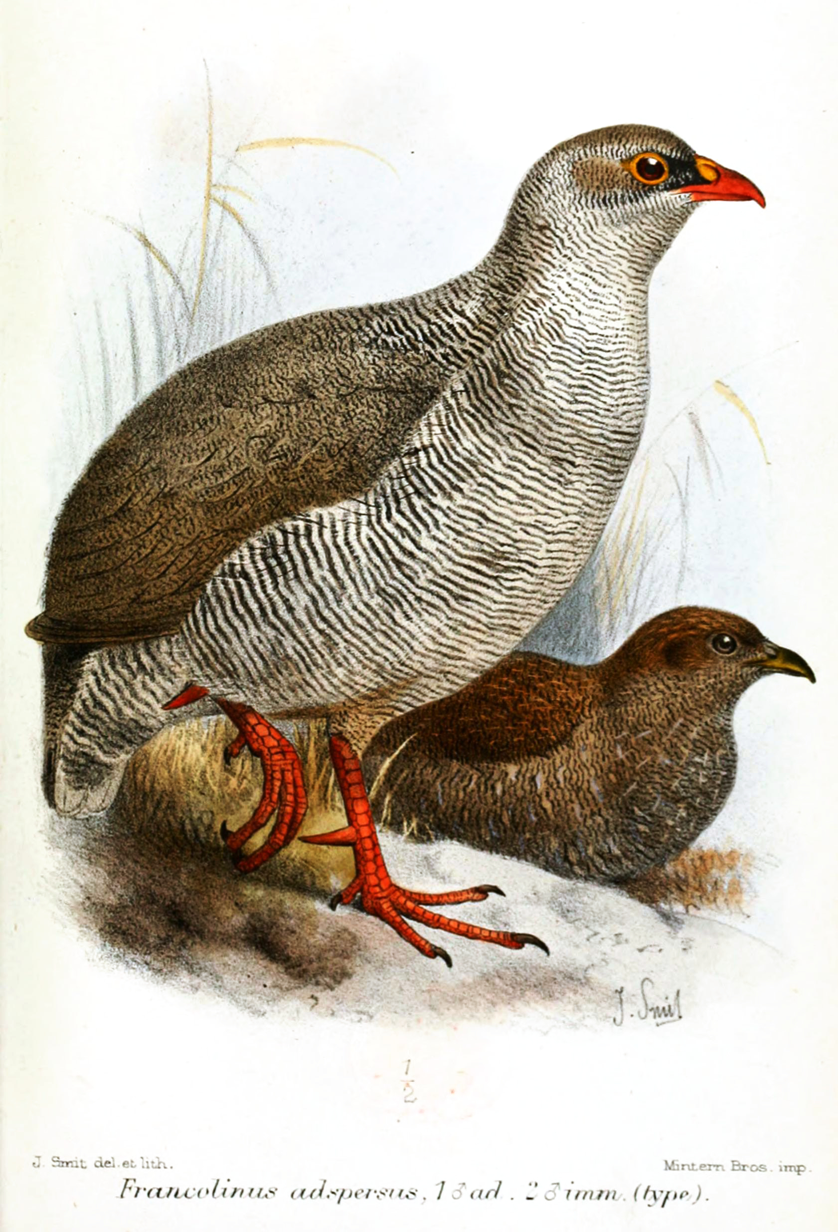 Pternistis adspersus (syn. Francolinus adspersus) Red-billed Francolin